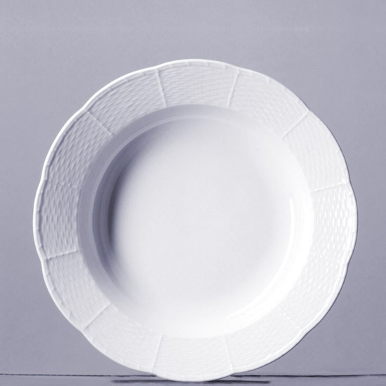 Plate, Altozier